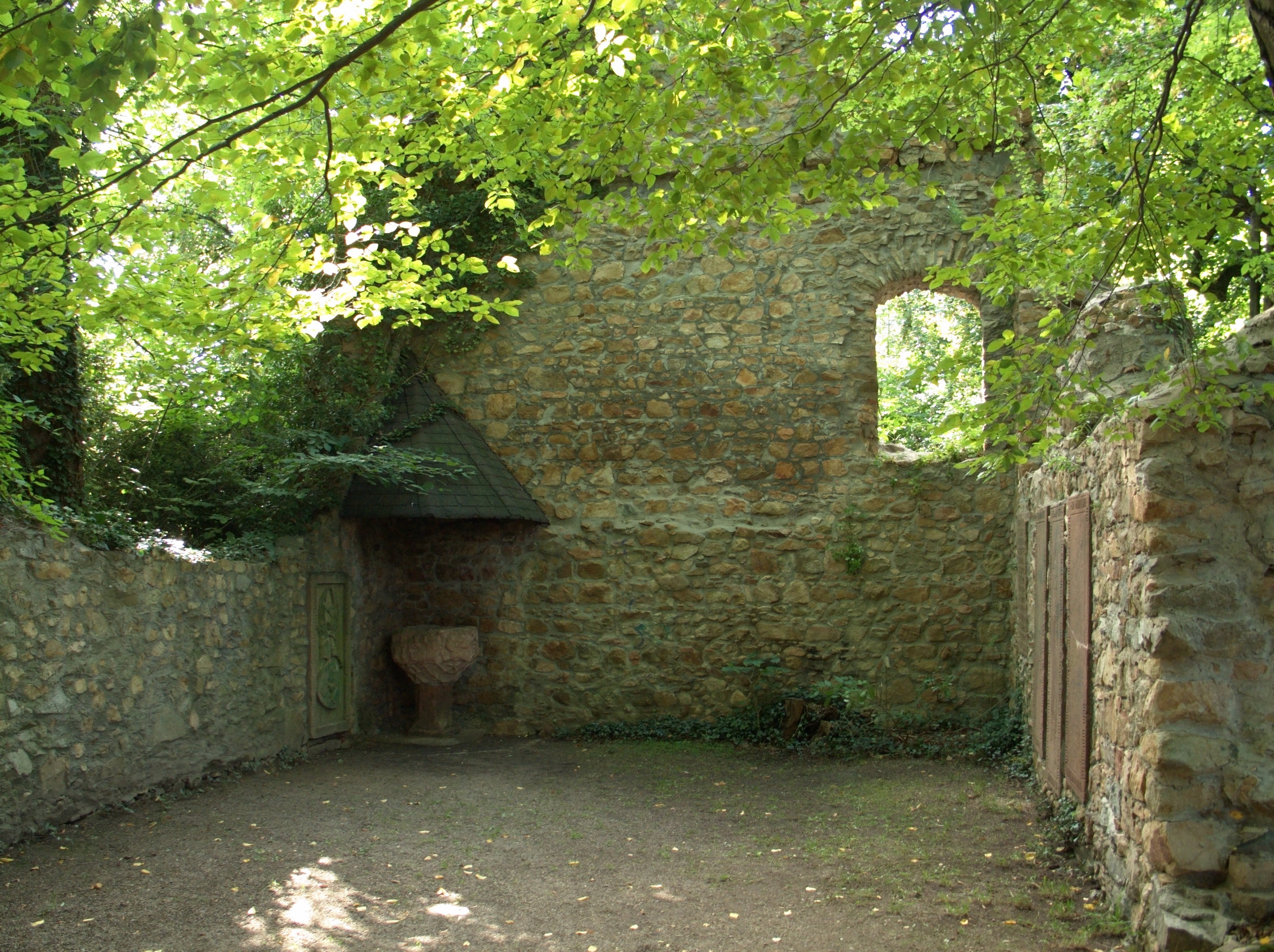 Ruins of the convent church at Heiligenberg near Jugenheim, Bergstraße, Germany. View in western direction, away from the altar.